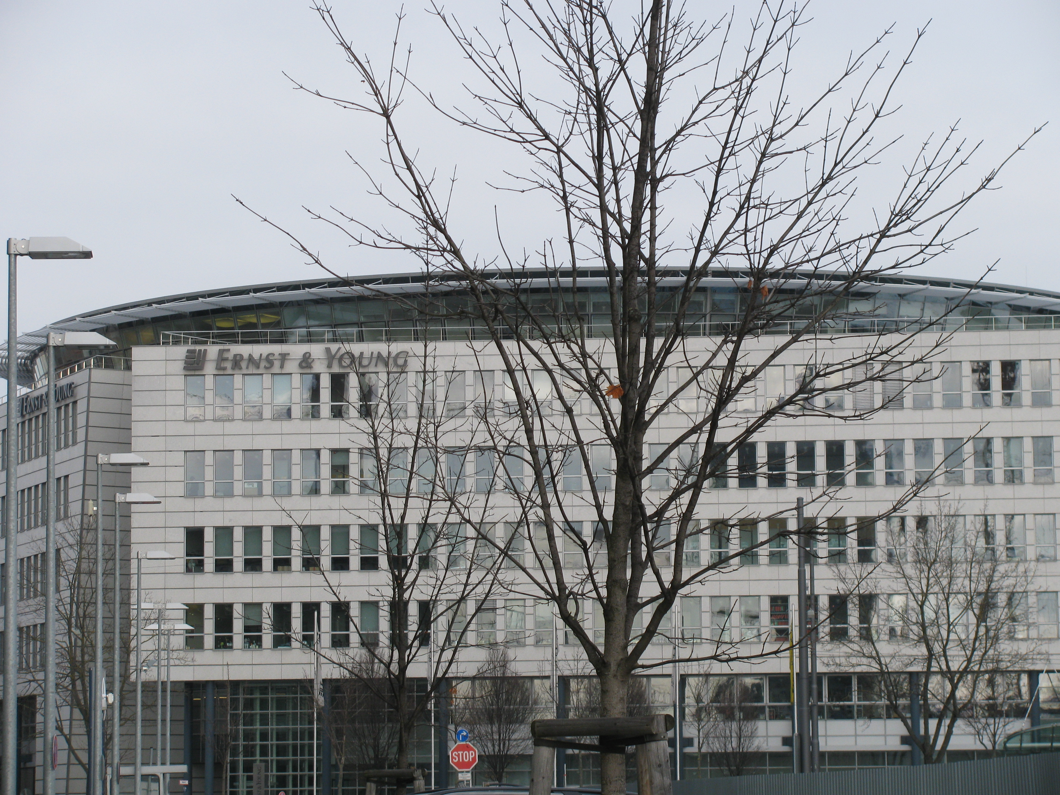 Former Ernst and Young HQ in Munich, Germany